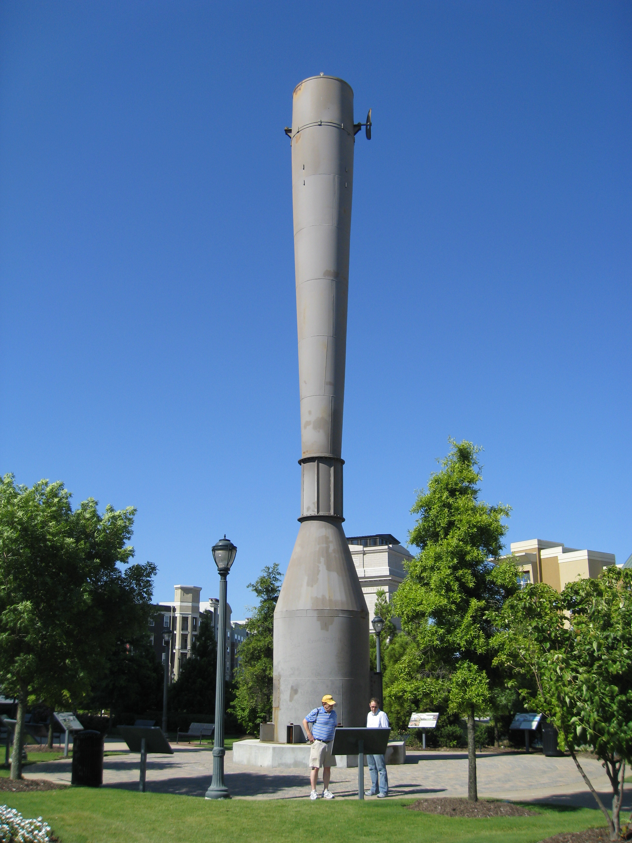 Monument to the old steel mill in Atlantic Station